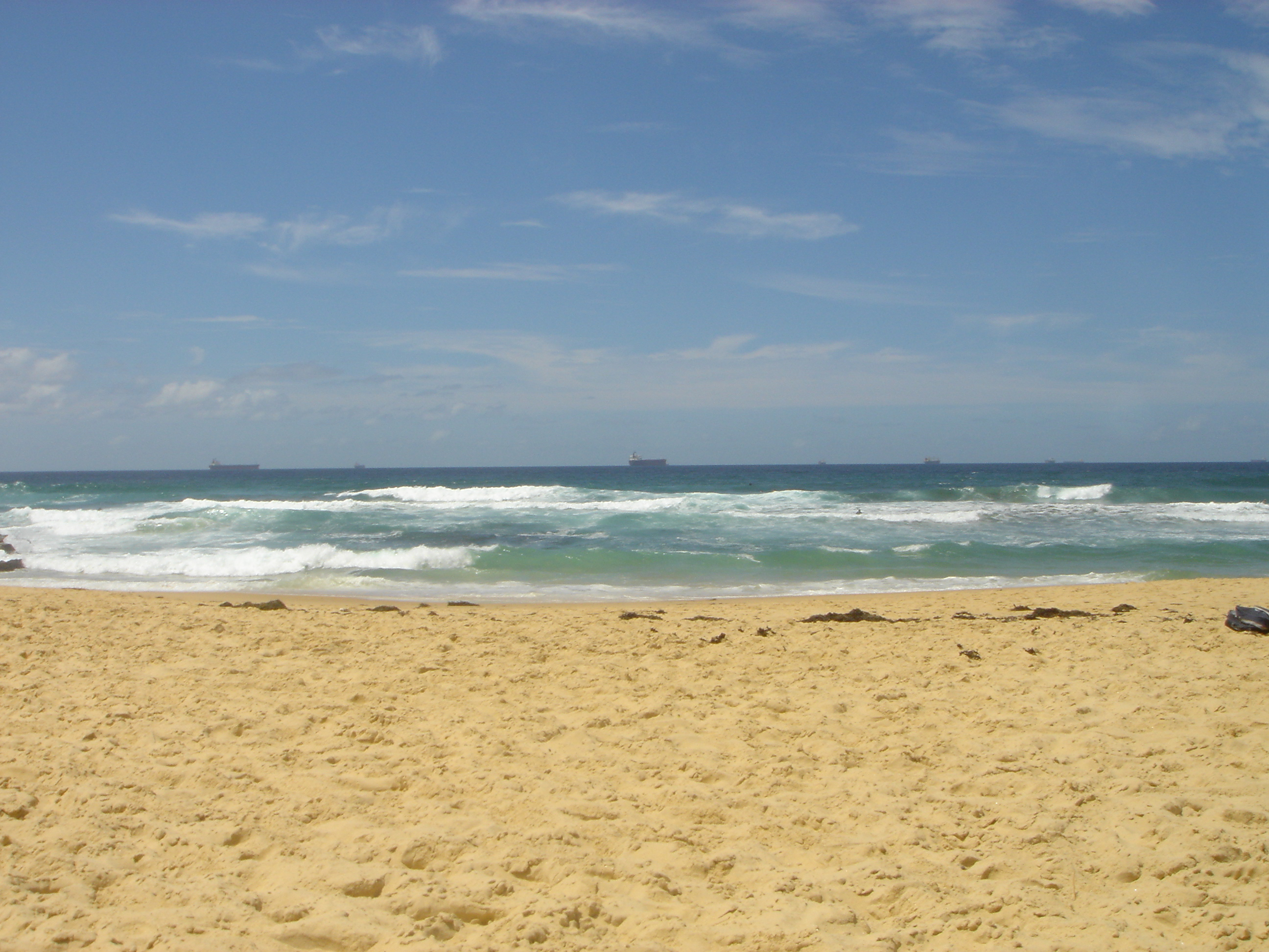 City beach of Newcastle, NSW